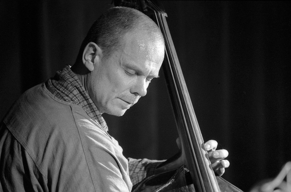 The jazz bassist Peter Kowald during a concert in the 90's in his hometown of Wuppertal.